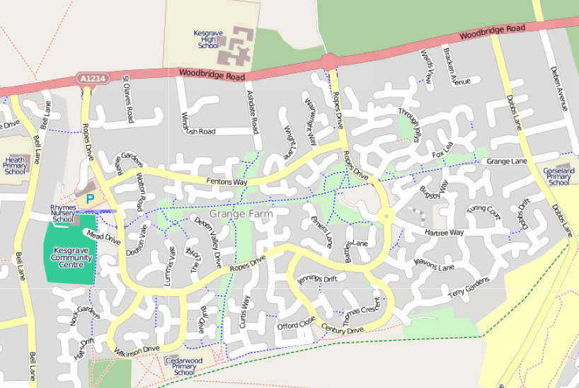 Map of Grange Farm and Kesgrave High School showing a network of footpaths as well as through-roads and Cul-de-sacs.